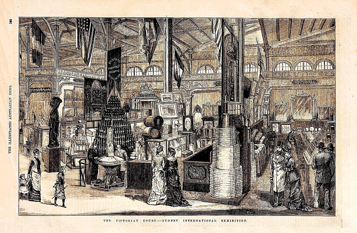 The Victorian Court of the Sydney International Exhibition. "The Illustrated Australian News".